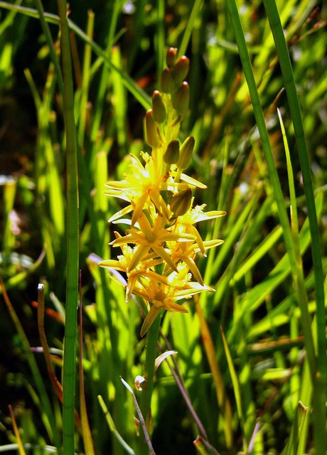 Bog asphodel